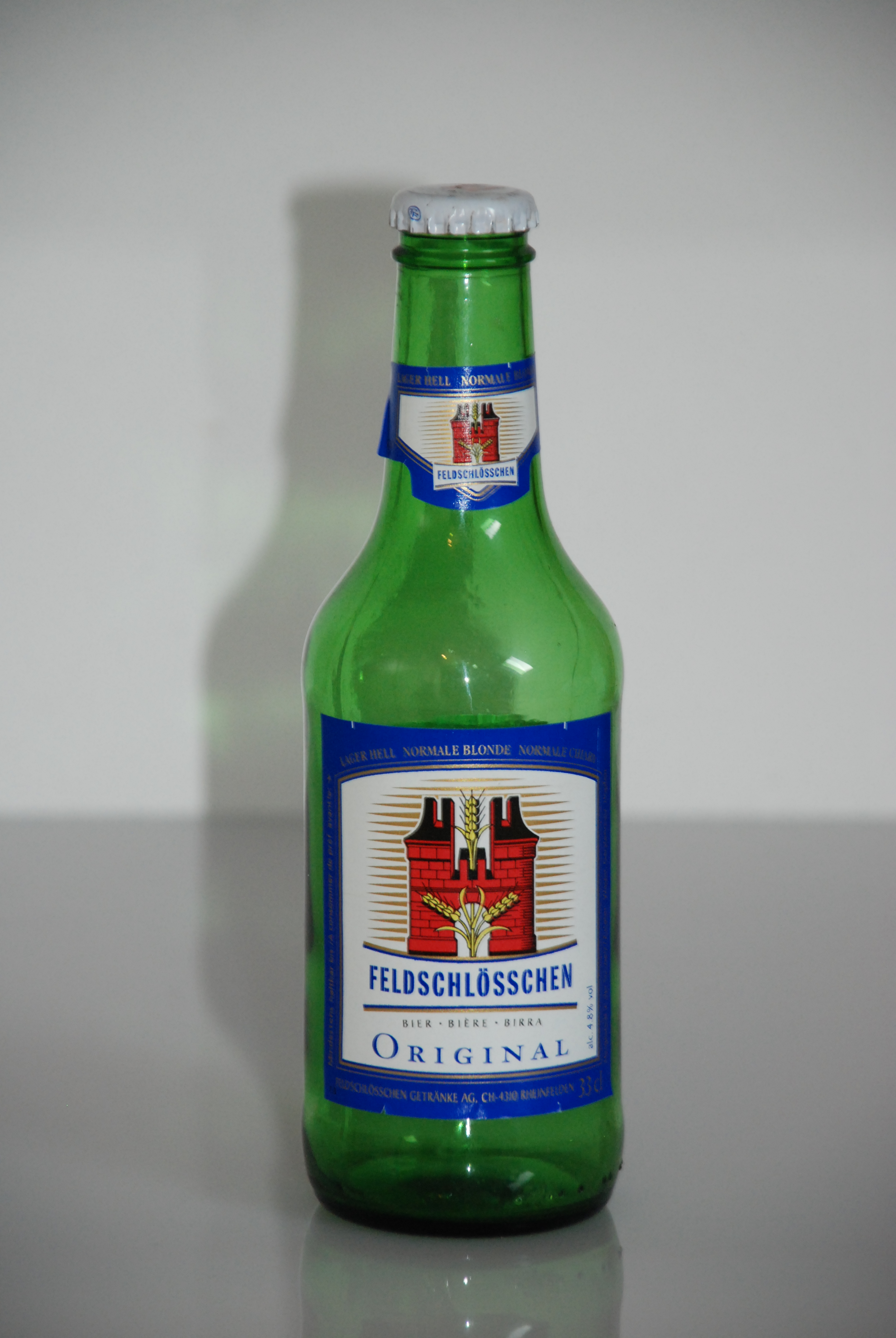 Bottle of Feldschlösschen beer.